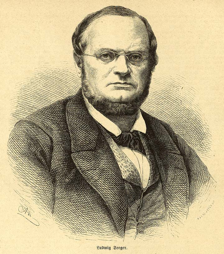 Ludwig Seeger, 1810-1864, German author.